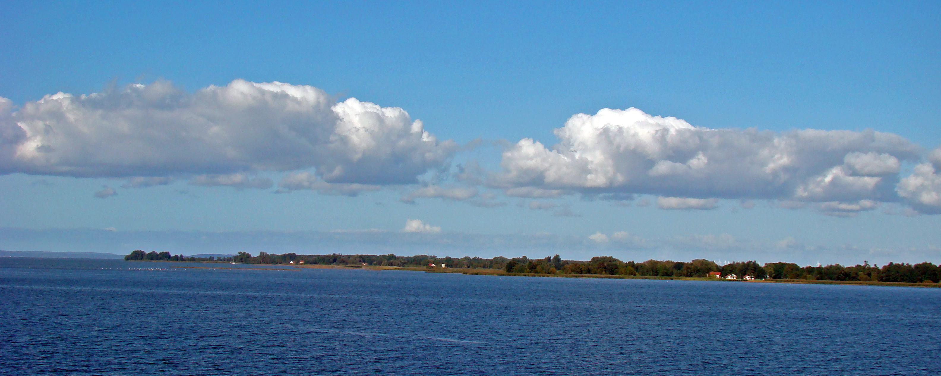 Gmina Stepnica, West Pomeranian Voivodeship, Poland